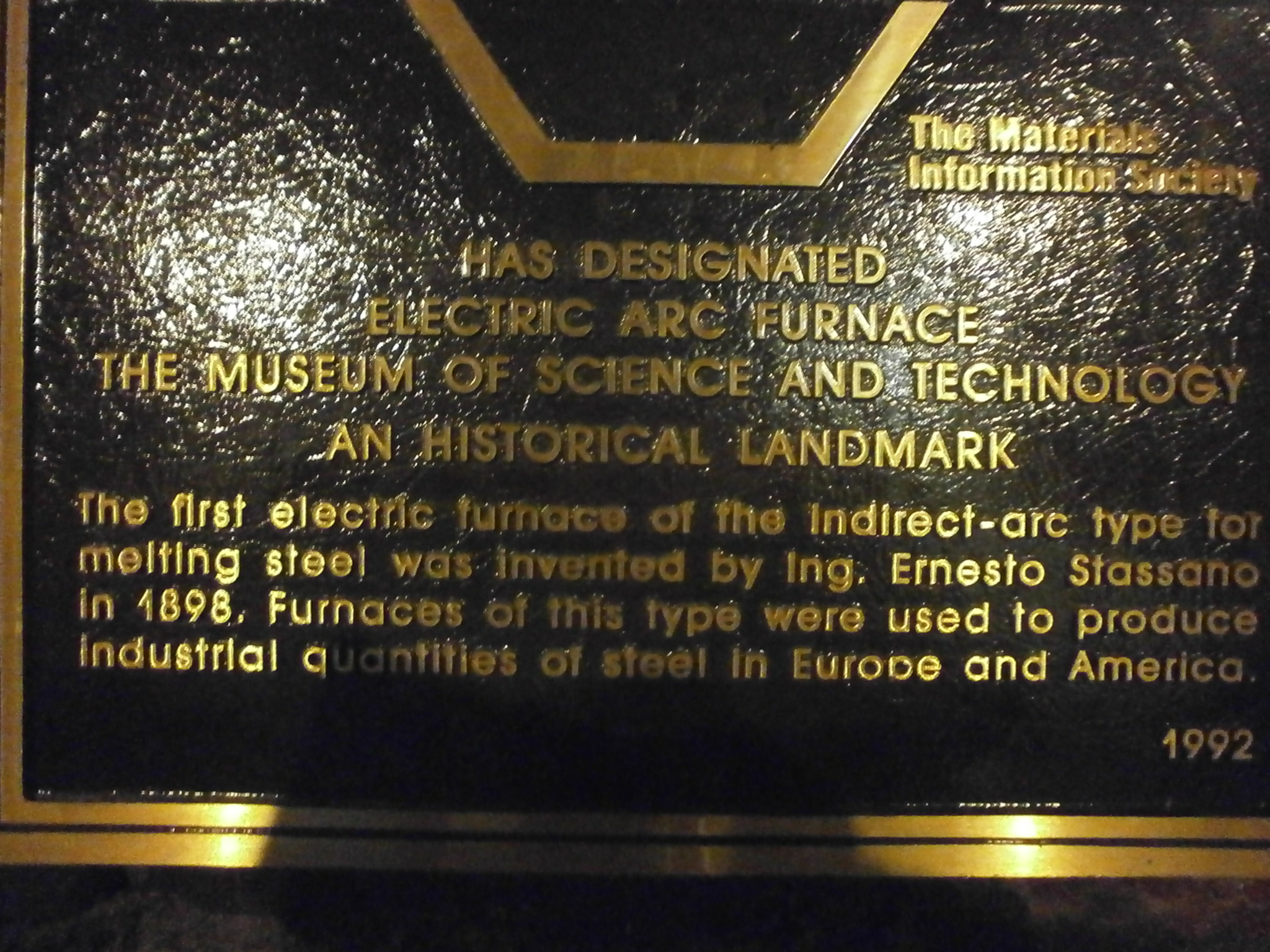 Certification by the Material Information Society for the first eletric furnace of the indirect-arc type for melting steel - 1898/1900 by Ernesto stassano - Museo della scienza e della tecnica - Milan - Italy